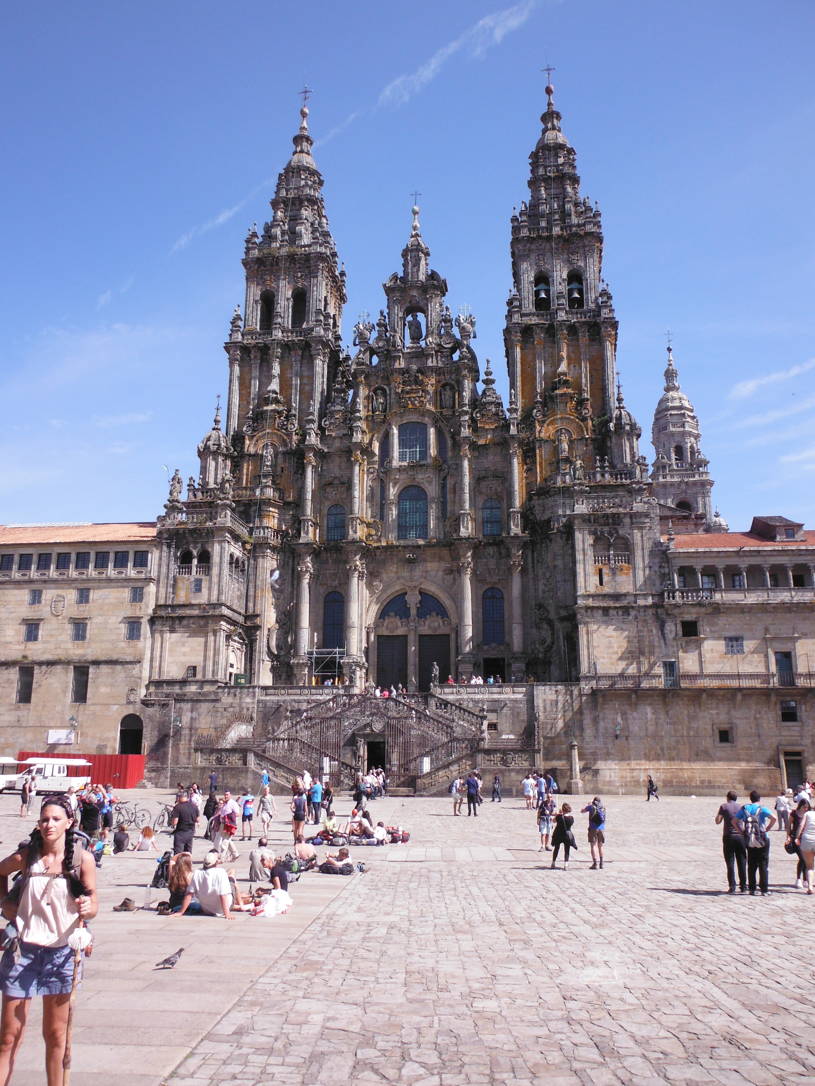 Catedral de Santiago